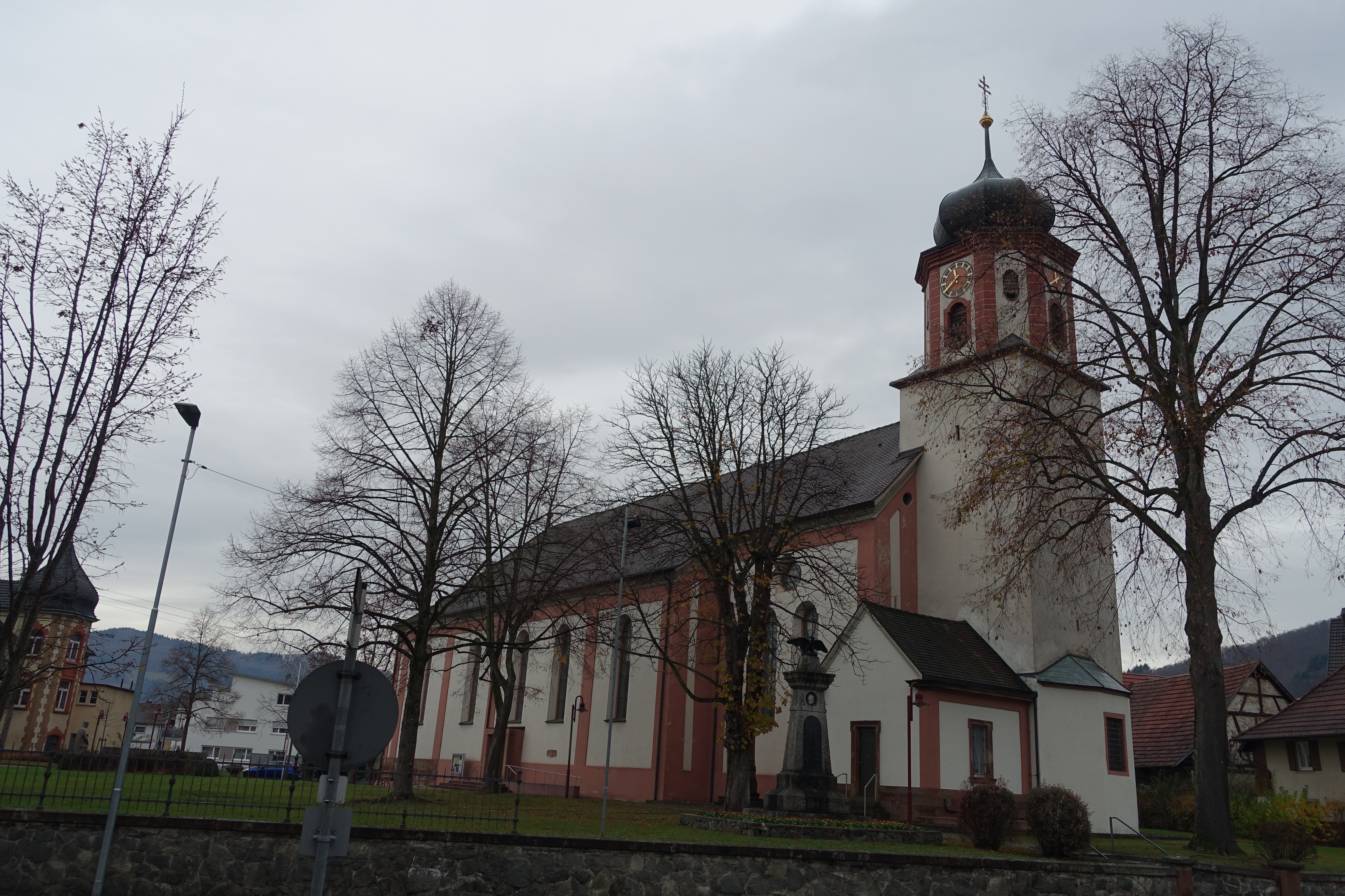 Kreuzerhöhung church in Steinach (Ortenaukreis) from southeast